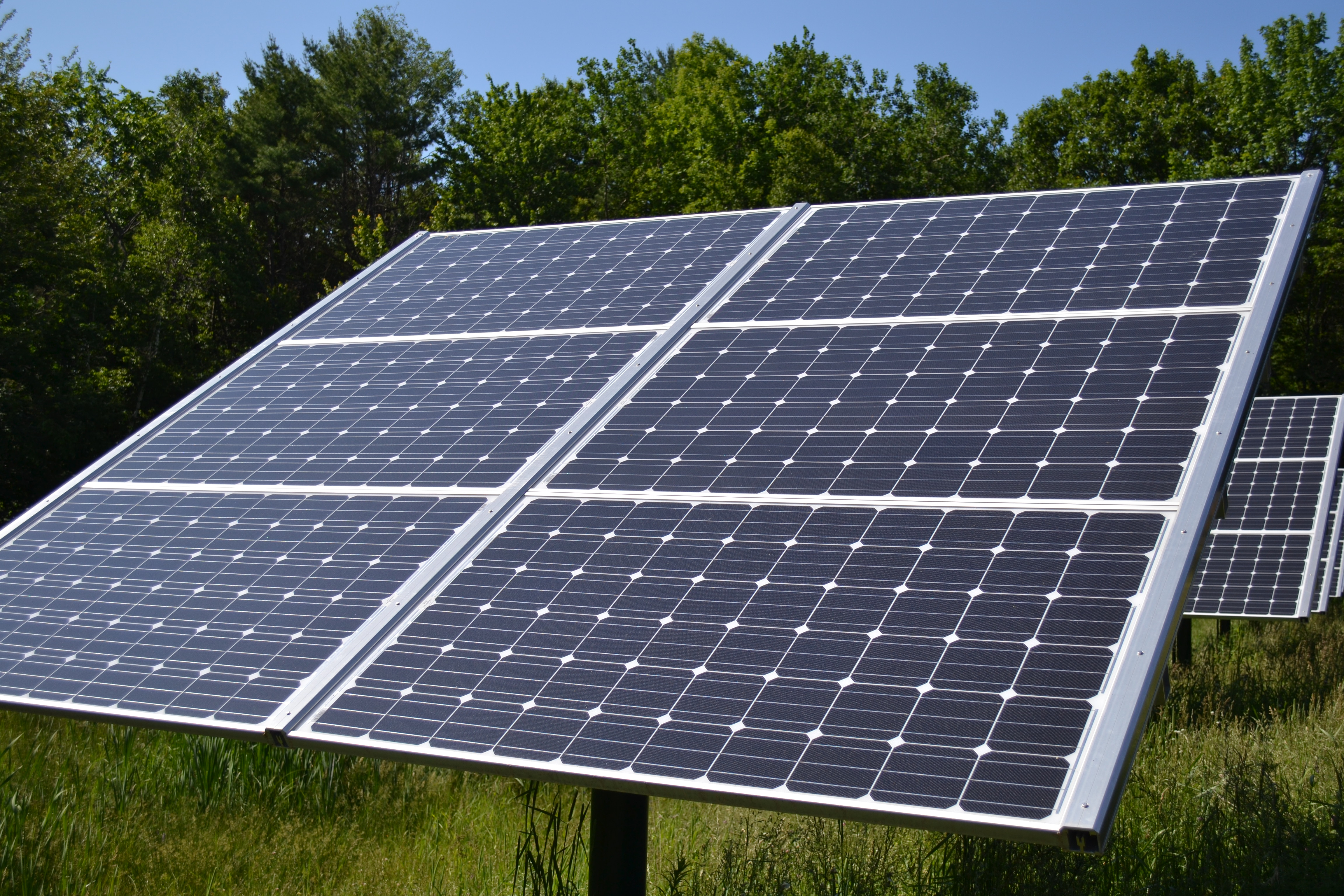 Solar panel at Canterbury Municipal Building Canterbury New Hampshire